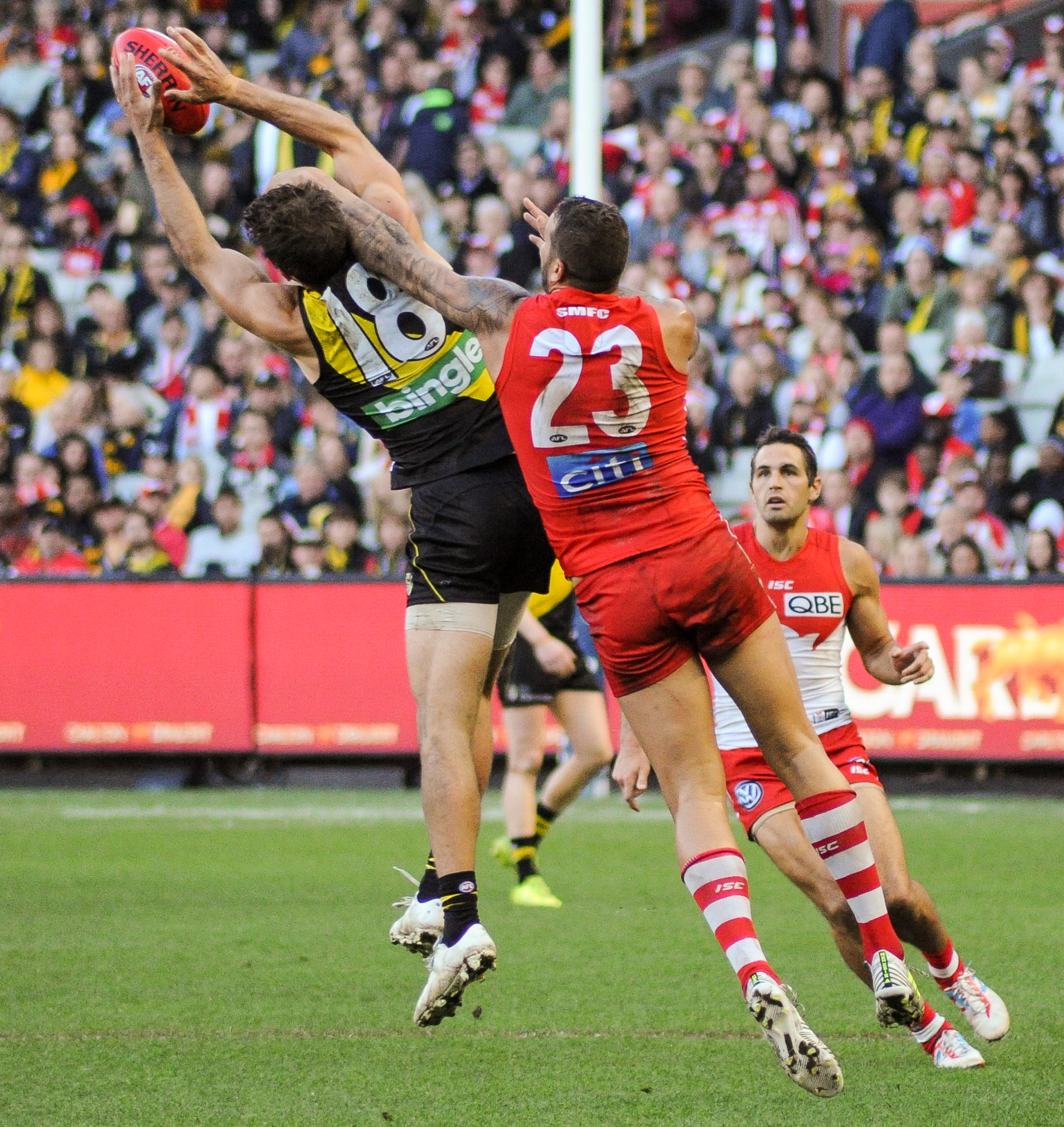 Alex Rance and Lance Franklin marking contest during the AFL round thirteen match between Richmond and Sydney on 17 June 2017 at the Melbourne Cricket Ground in Melbourne, Victoria.